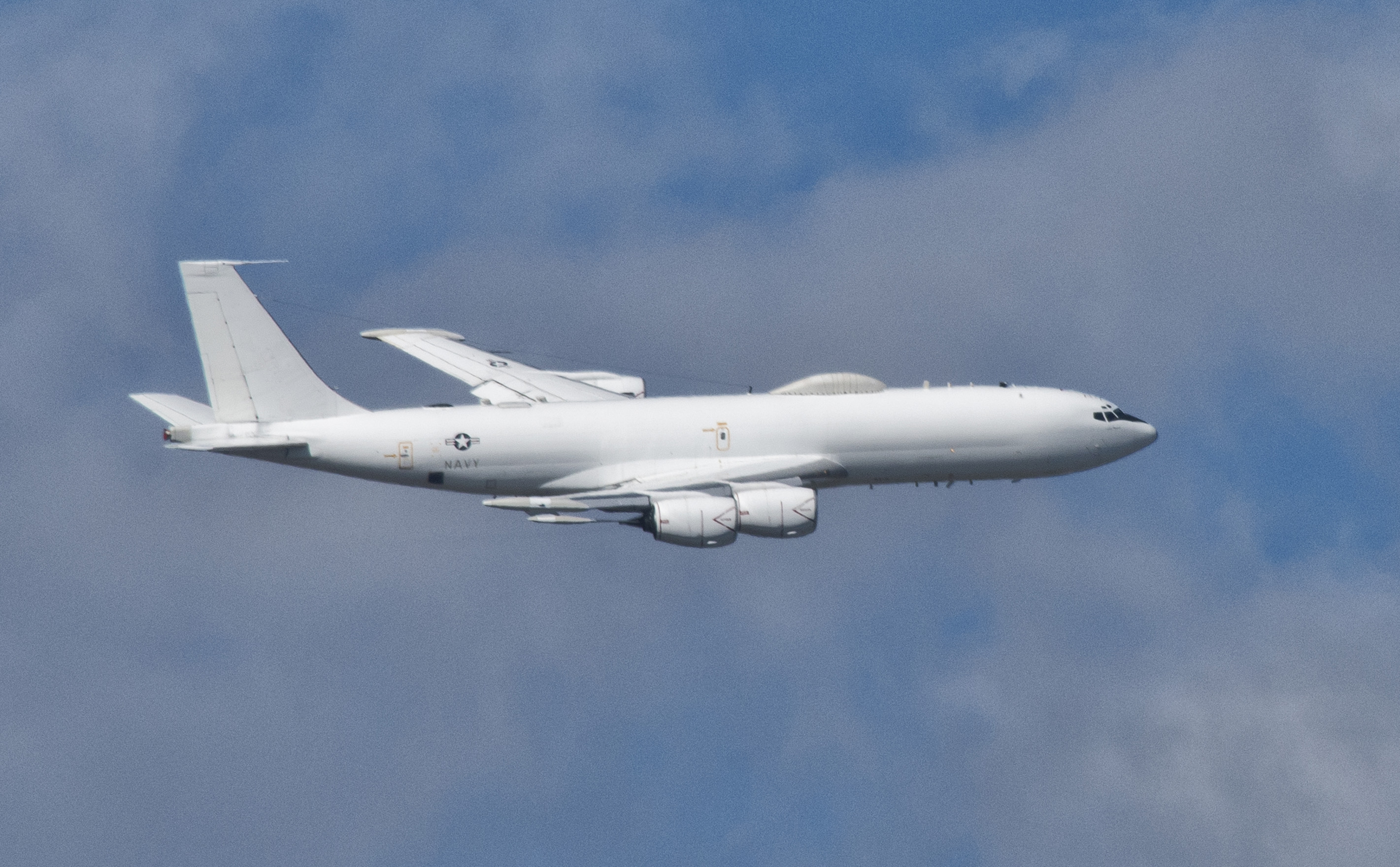 A U.S. Navy Boeing E-6B Mercury airborne command post flies over Solomons Island, Maryland (USA), on 15 November 2014. The E-6B is a dual-mission aircraft providing either airborne command, control, and communications or serving as an airborne strategic command post and is equipped with an airborne launch control system capable of launching U.S. land based intercontinental ballistic missiles.